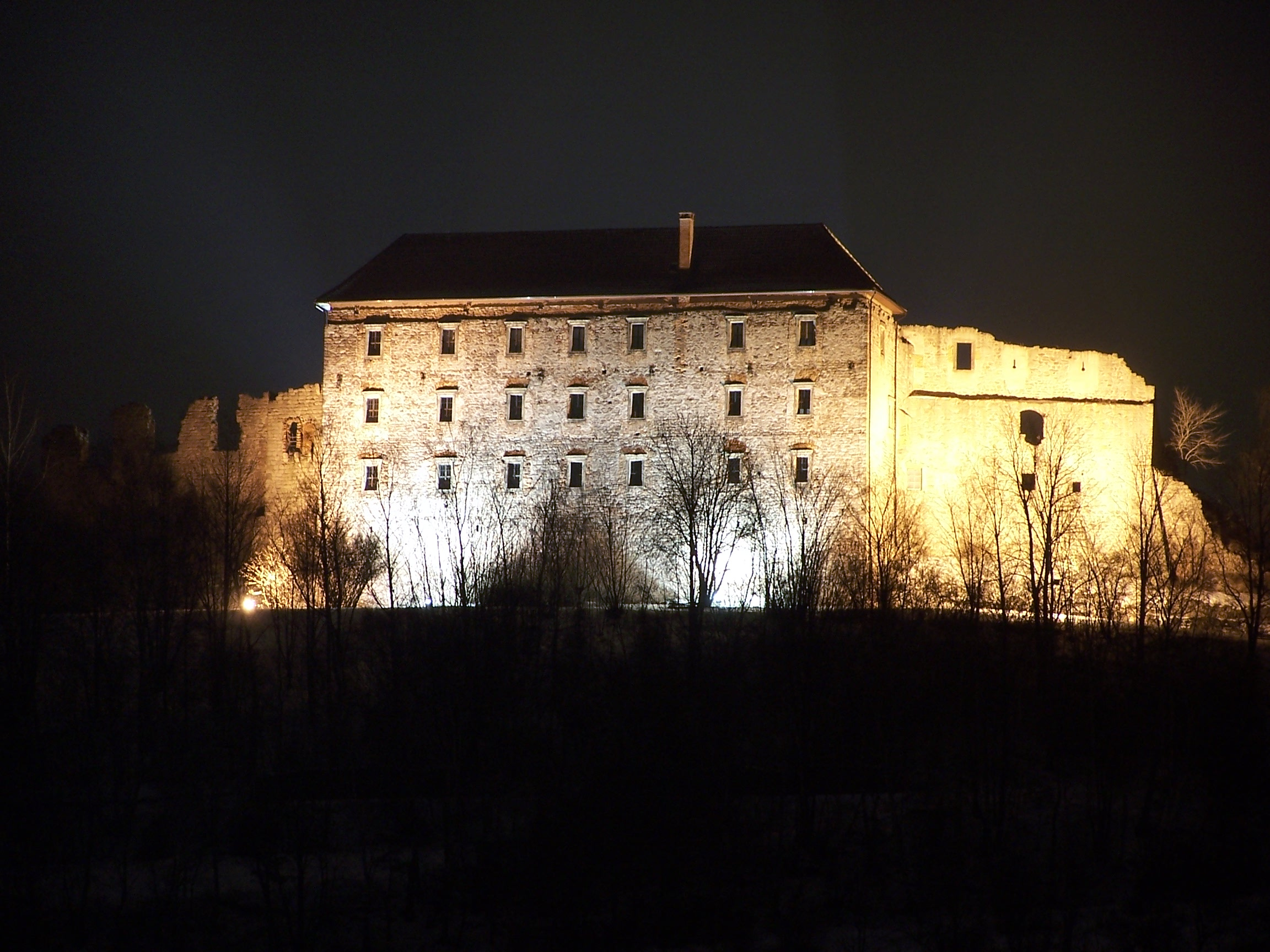 Castle Pecka at night